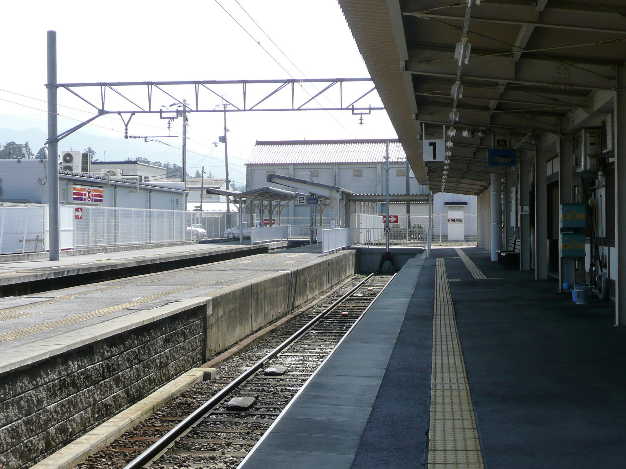 Ohmi Railway,Taga-Taishamae Station platform. / 近江鉄道多賀大社前駅ホーム